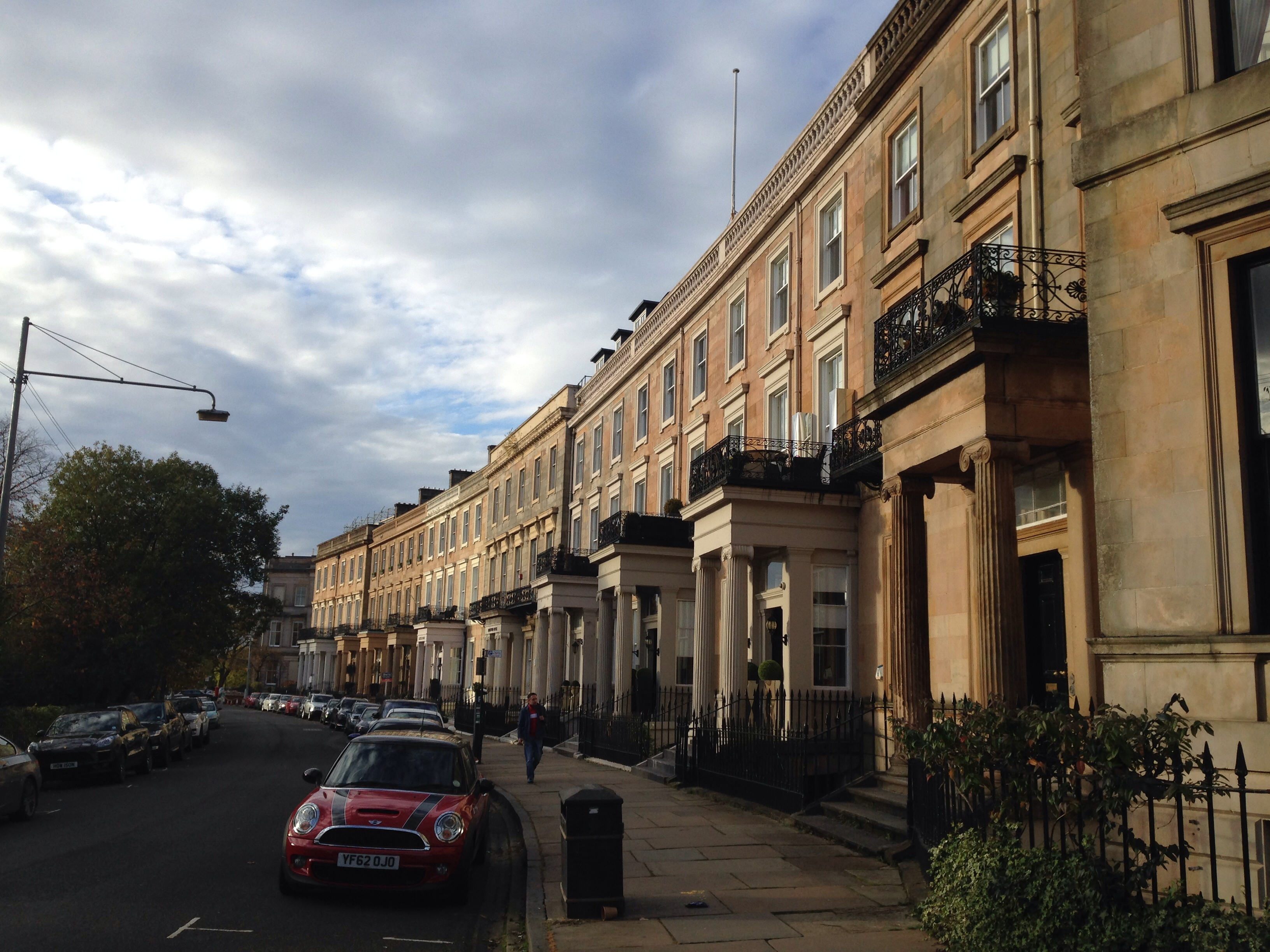 The Category A listed LB32185 at 1-12 (INCLUSIVE NOS) CLAREMONT TERRACE 1 CLAREMONT PLACE AND GATEPIERS TO CLAREMONT TERRACE LANE in Glasgow.